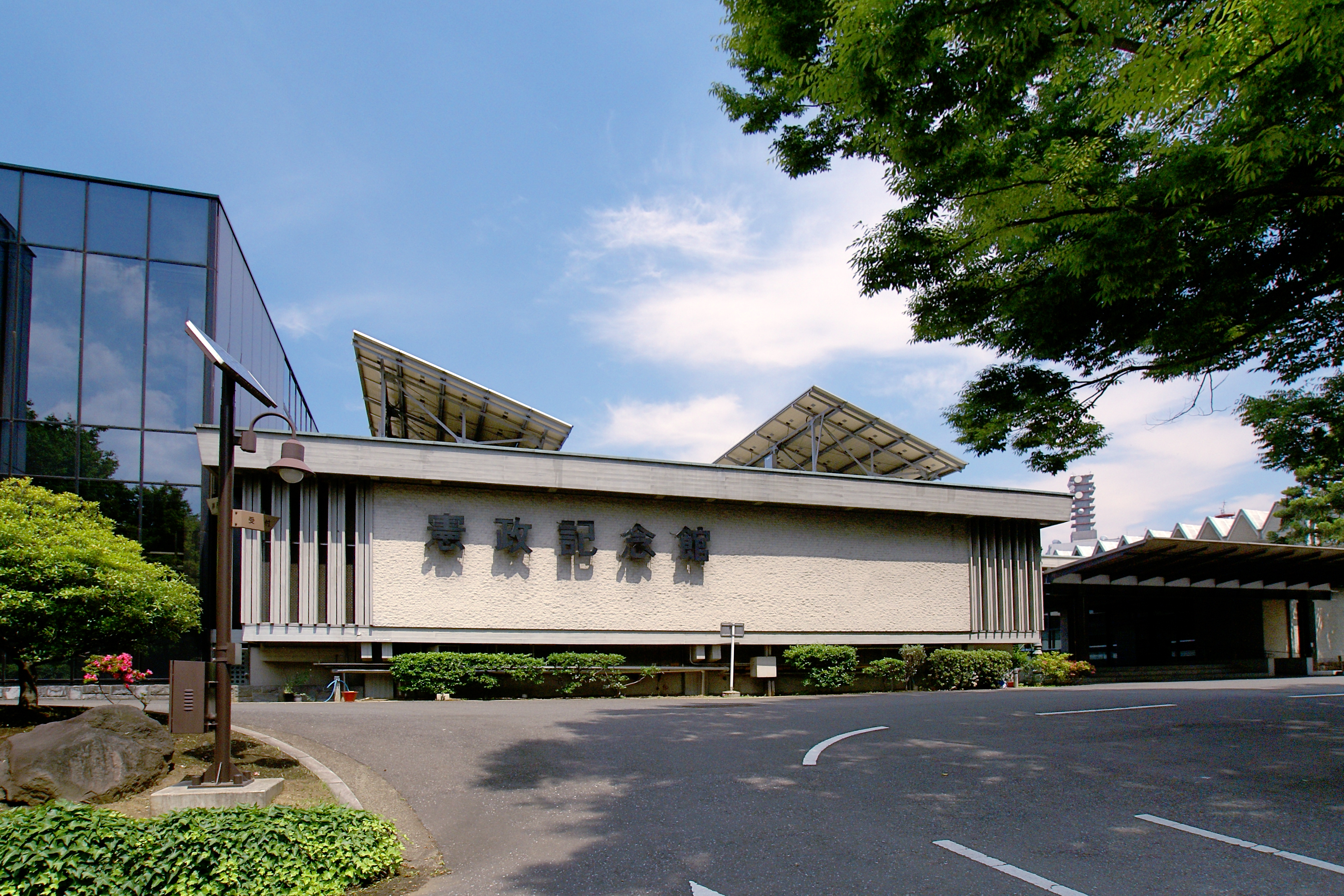 Kensei-kinenkan in Chiyoda-ku, Tokyo, Japan